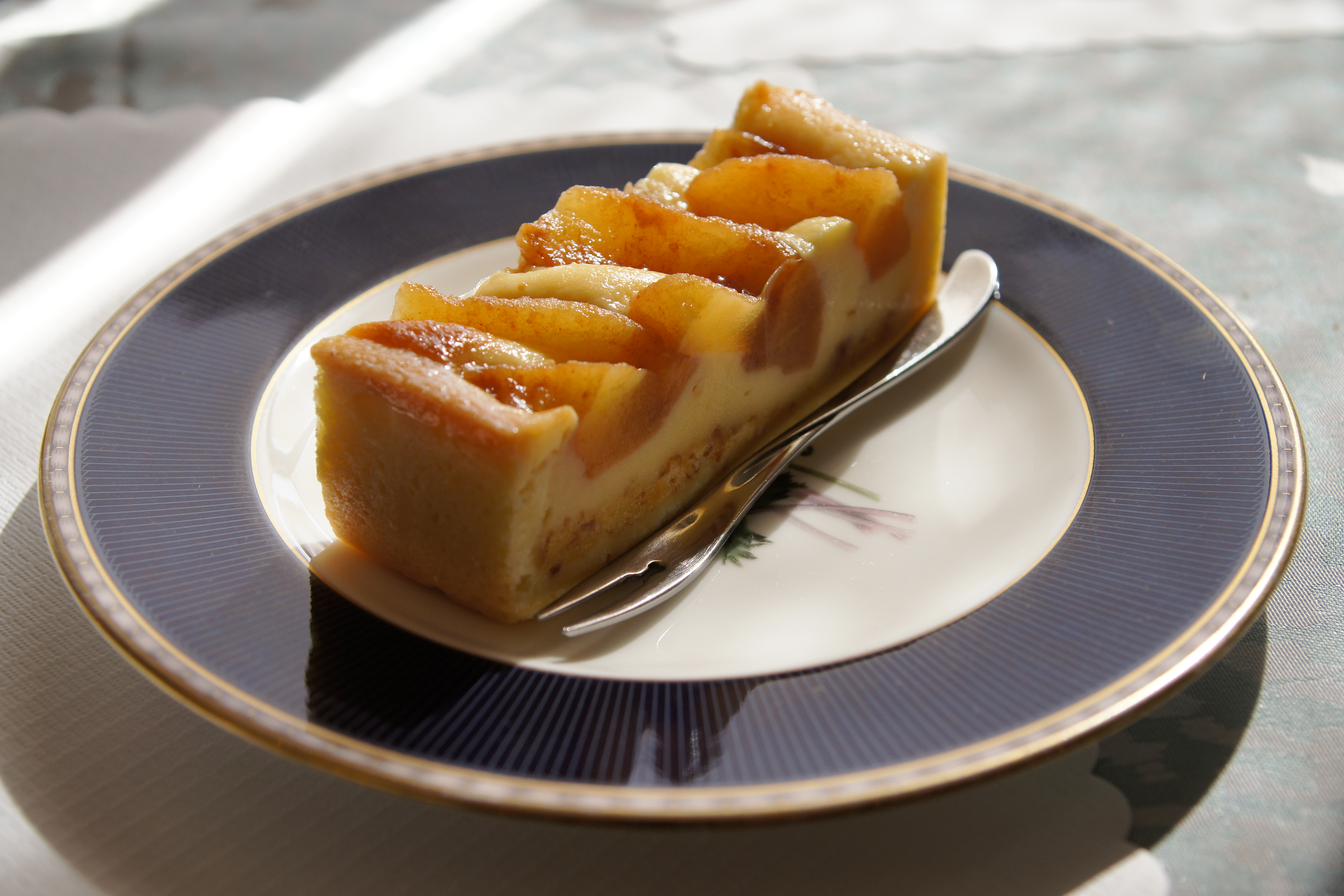 Akashi City Museum of Culture in Akashi, Hyogo prefecture, Japan